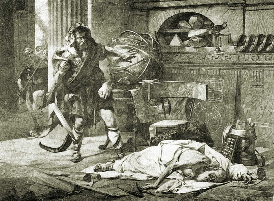 Edouard Vimont, Death of Archimedes.